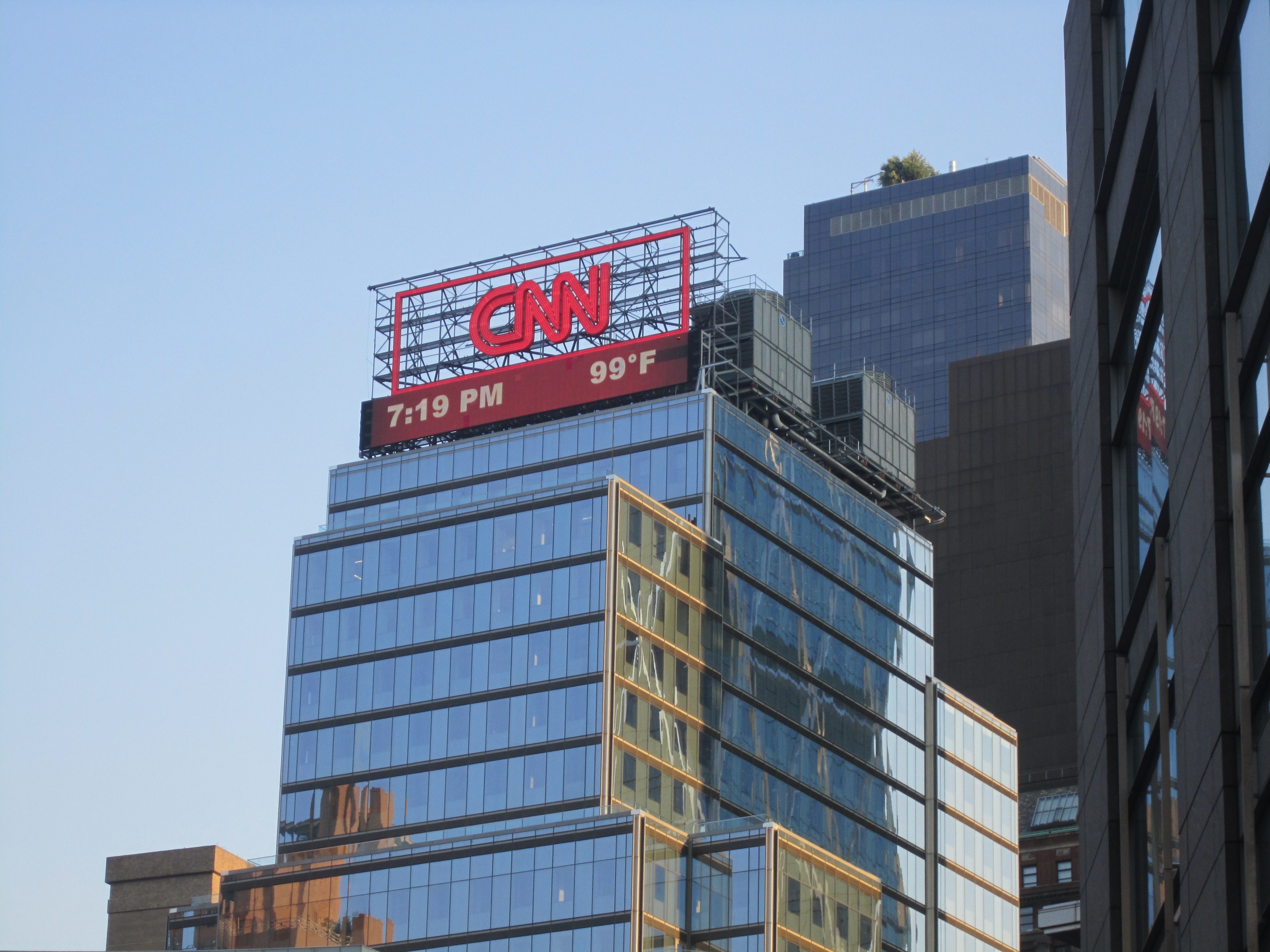 I took photo of CNN building in New York City with Canon camera.